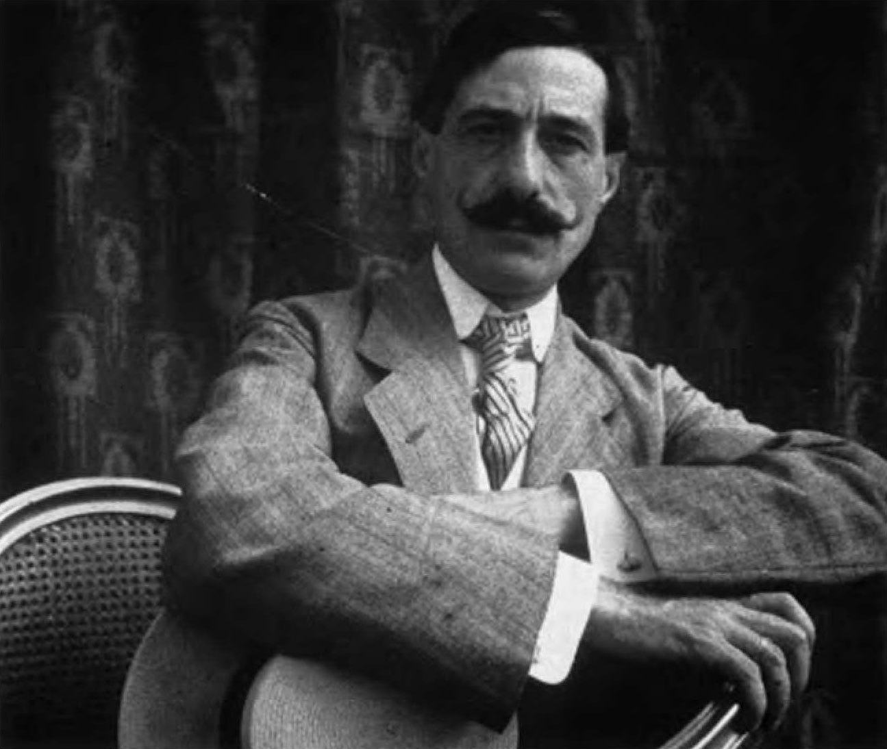 According to Joan M. Minguet Batllori, the author of the article, "there is no knowledge of copyright holders on this image".